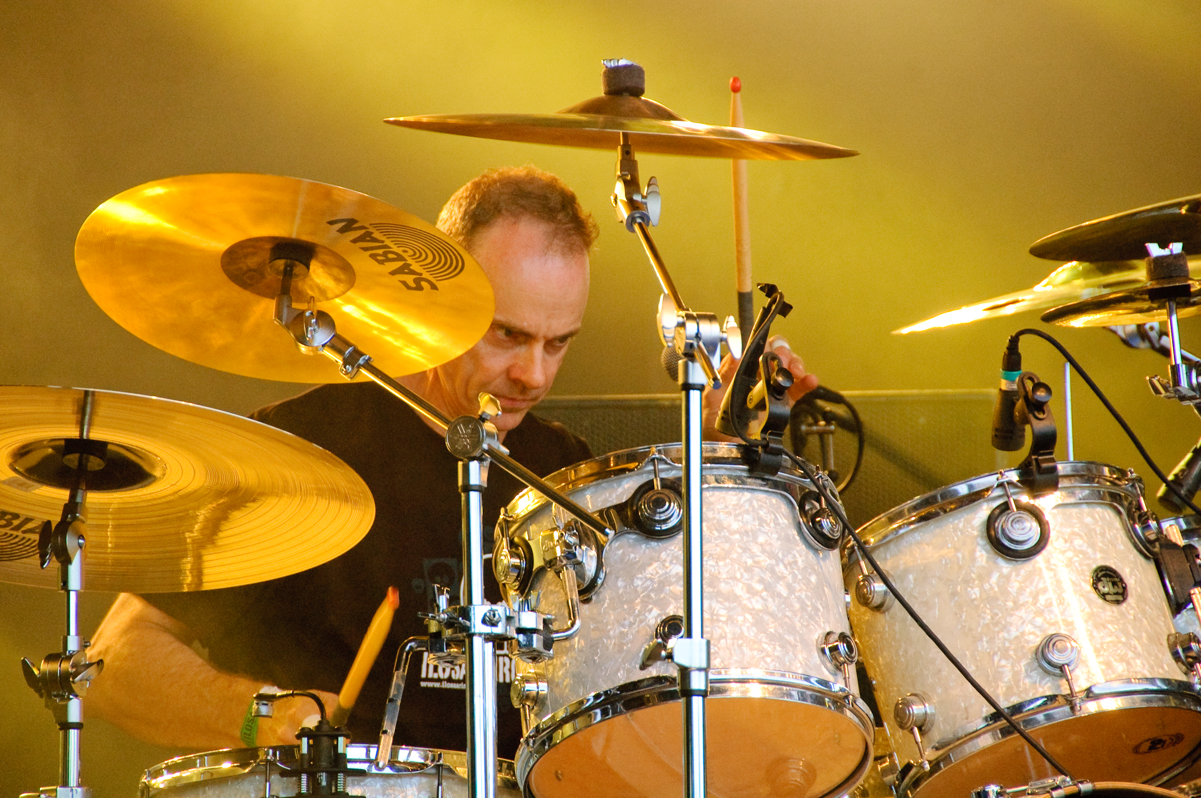 Drummer Paul Ferguson of Killing Joke performing at the Ilosaarirock festival in Joensuu, Finland.